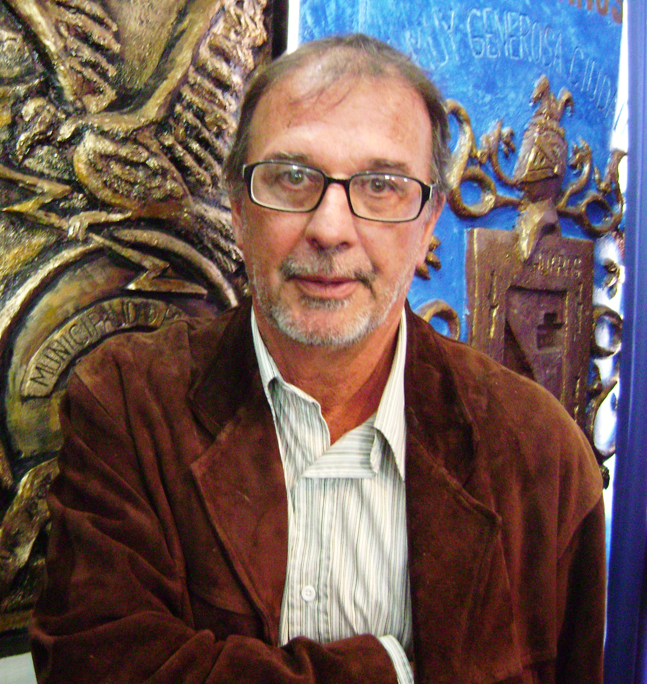 Rafo León, peruvian writer and journalist.